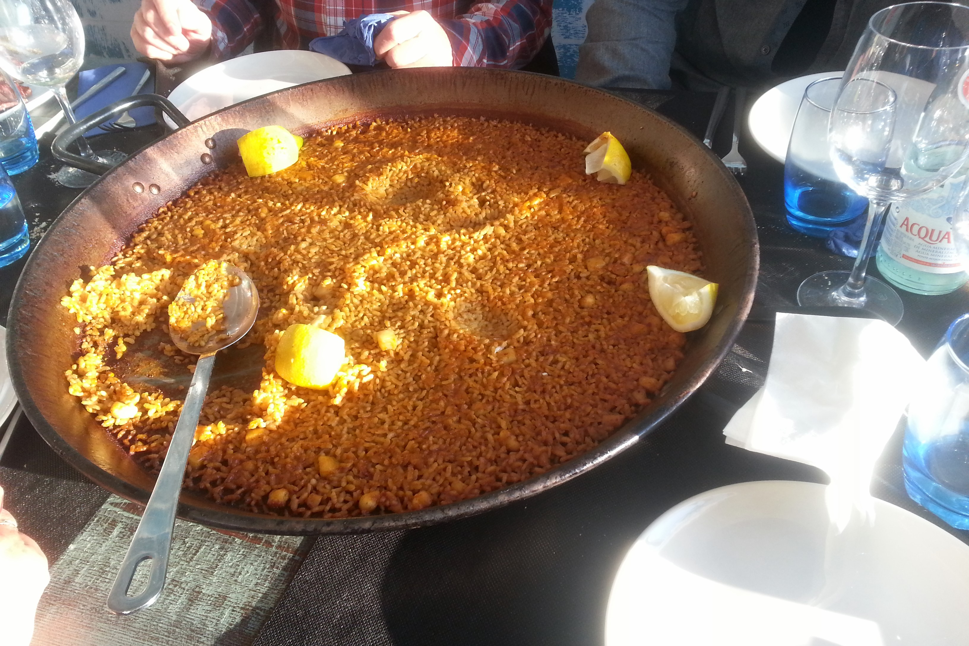 Restaurante La Llongeta in Dénia, Valencia.